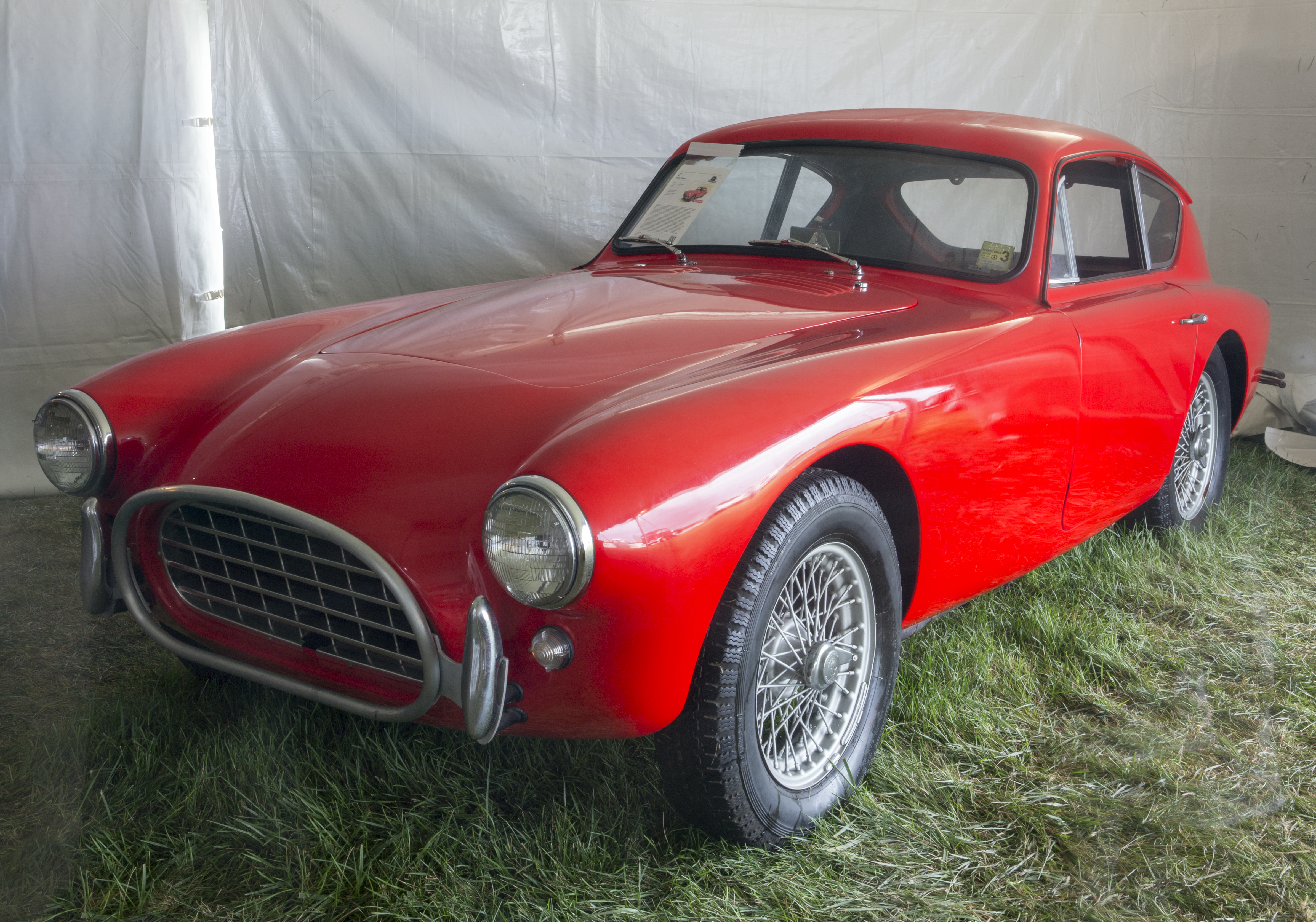 A 1958 AC Aceca offered for sale at Hershey 2019. One owner since 1973, but has had the original 1991cc AC inline-six swapped for a 289ci Ford V8.